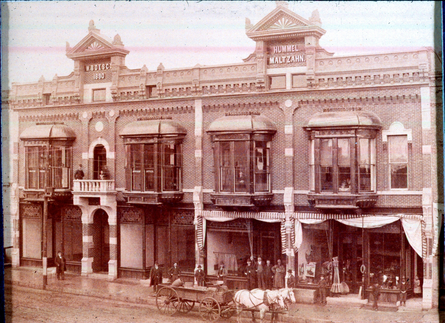 Boesch, Hummel, and Maltzahn Block in New Ulm, Minnesota. Digitalized slide from the Minnesota State Historic Preservation Office at the Minnesota History Center.